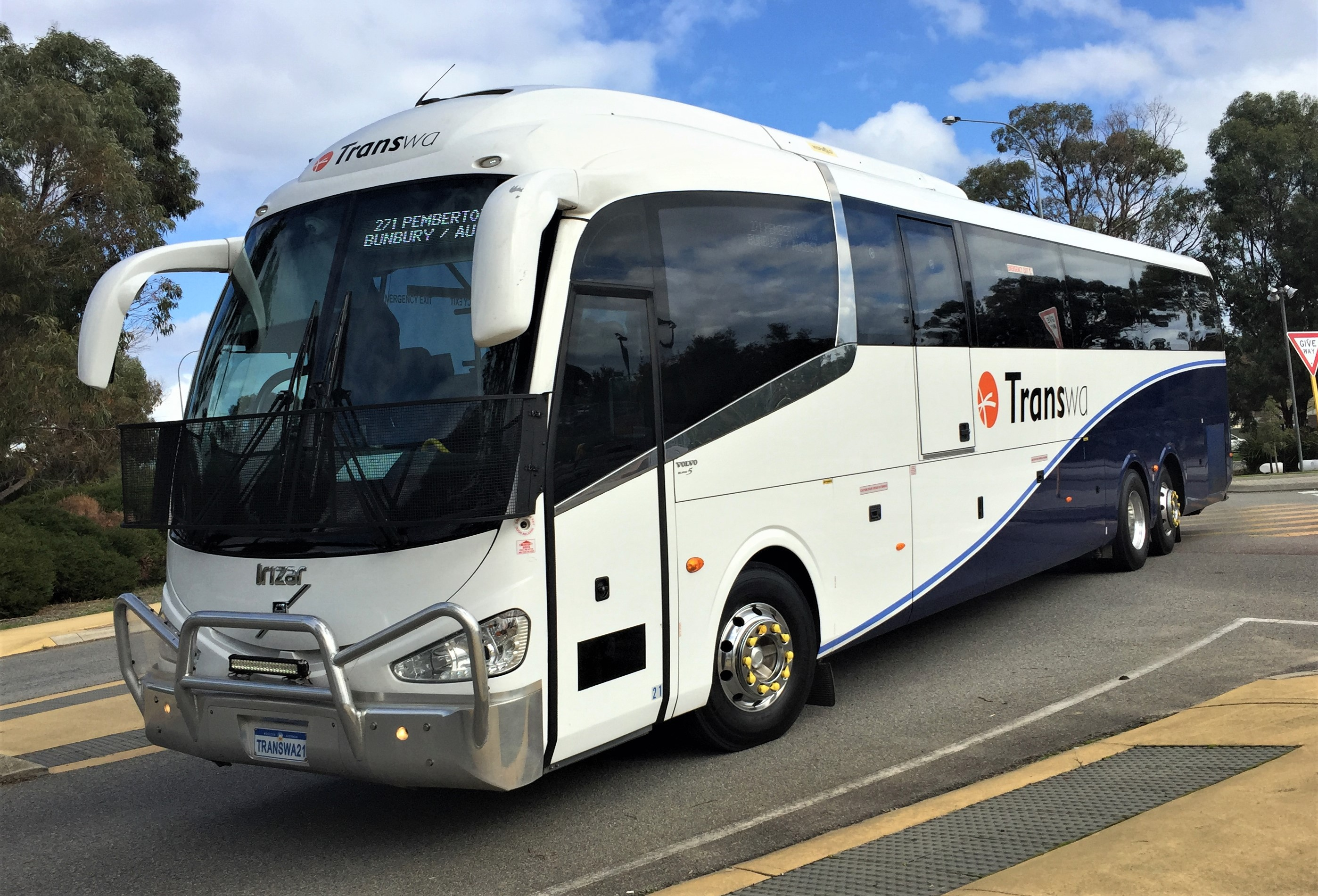 TRANSWA21 - A Volvo B11R coach with the 'Irizar i8' body seen here at Mandurah Station on its way down to Bunbury